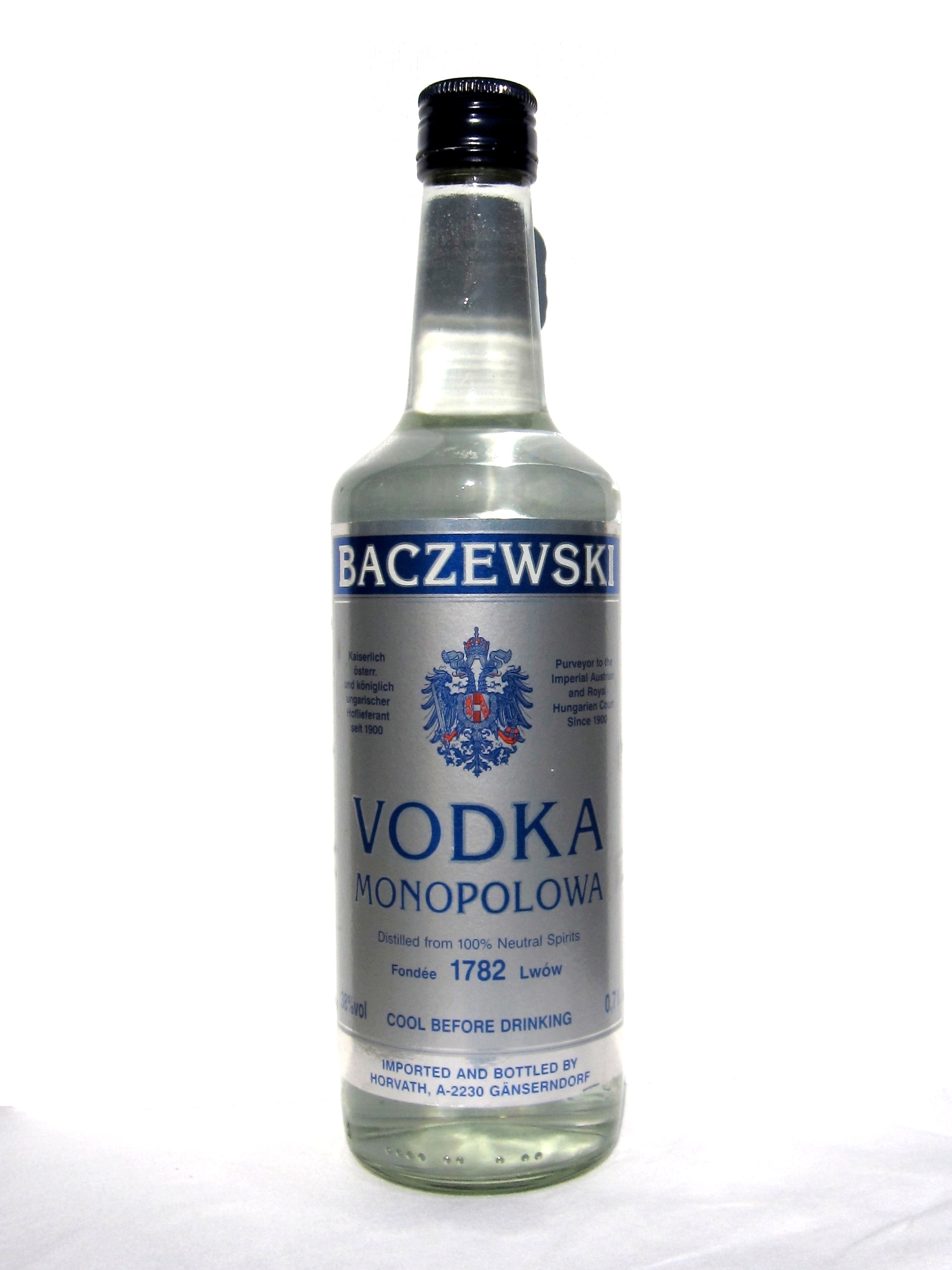 Monopolowa vodka by Baczewski